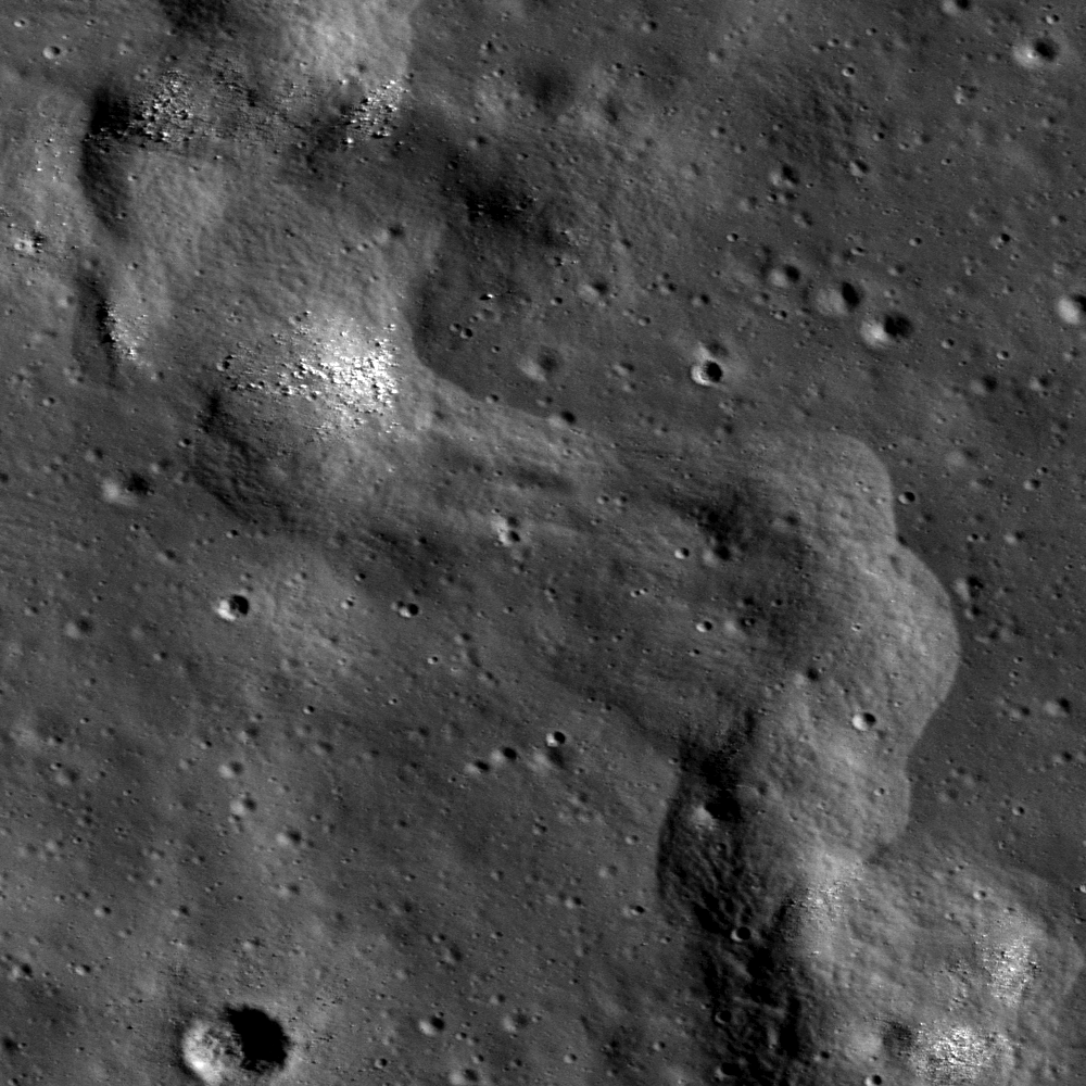 A section of a lobate scarp inside Karrer crater. NAC frame M145557281R, incidence is 71°, image is 0.64 m/px [NASA/GSFC/Arizona State University].